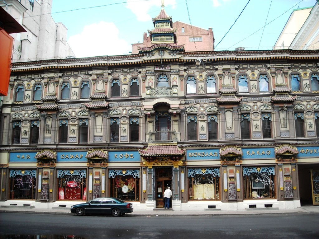 Perlov House, 19 Myasnitskaya Street